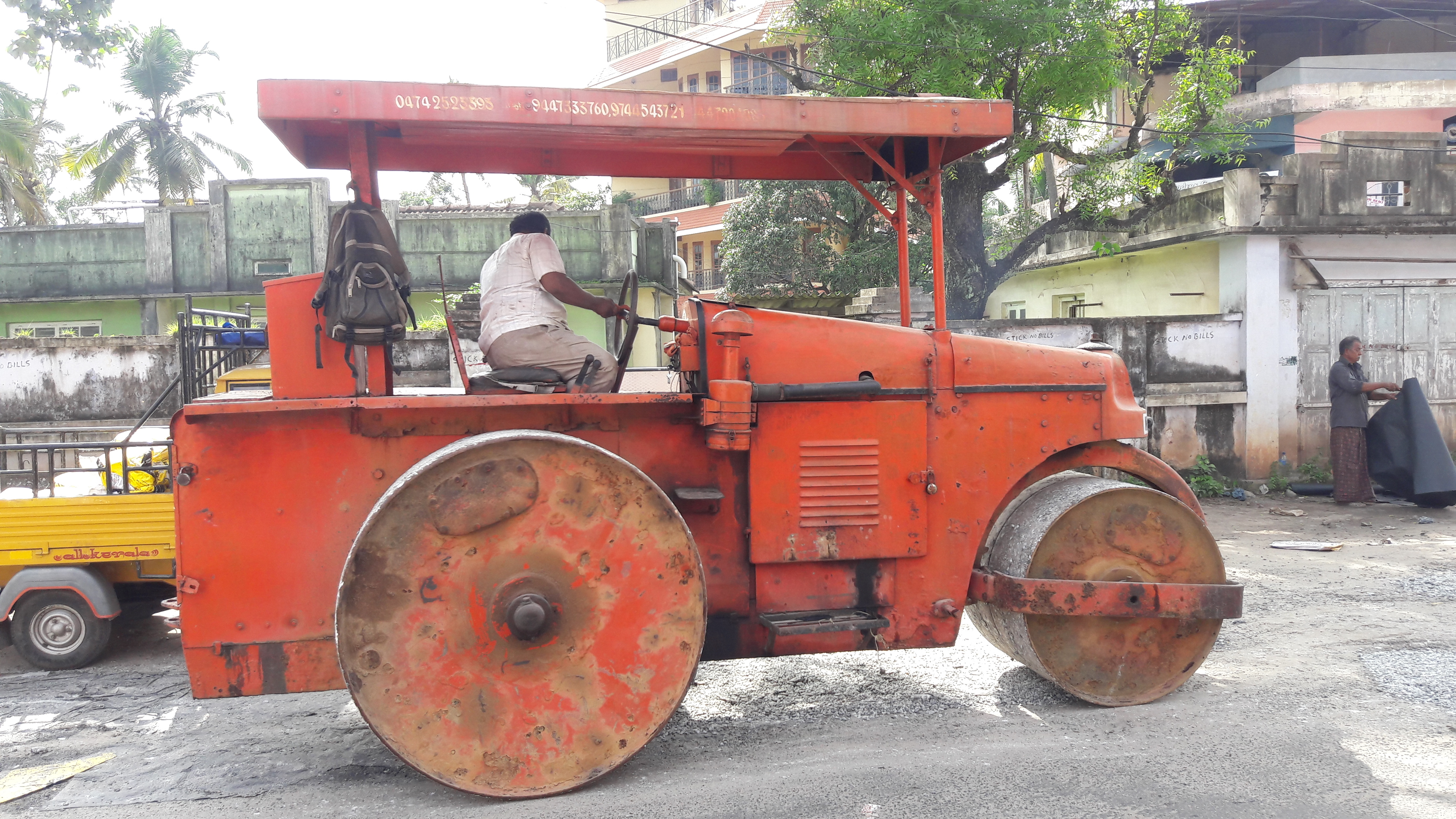 Roadroller in action